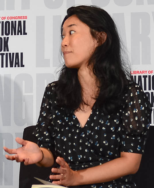 Jenny Xie speaks on the "Poetry of Place" panel with Anya Creightney and Natasha Tretheway at the National Book Festival, August 31, 2019. Photo by Kimberly T. Powell/Library of Congress. Note: Privacy and publicity rights for individuals depicted may apply.